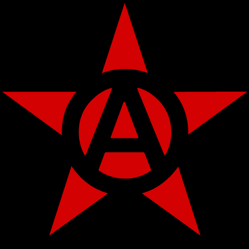 Combination of socialist symbol of the red star and anarchist symbol of the circled A. Also an optical illusion, as neither a star nor a cirled A are actually drawn, but are both made from the negative space of each other.